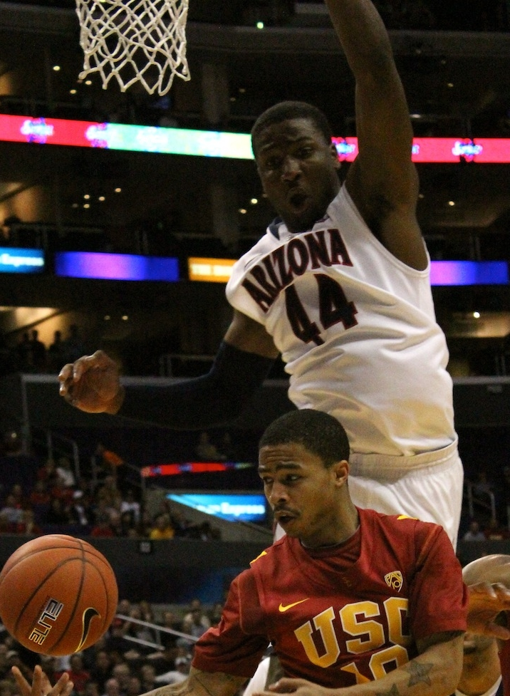 Maurice Jones no-look pass. (Shotgun Spratling/Neon Tommy)